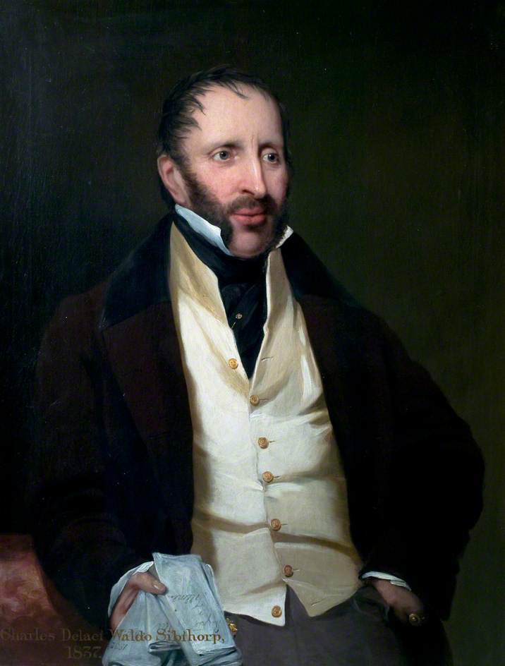 1837 portrait of Charles Delaet Waldo Sibthorp; a widely caricatured British Ultra-Tory politician in the early 19th century.